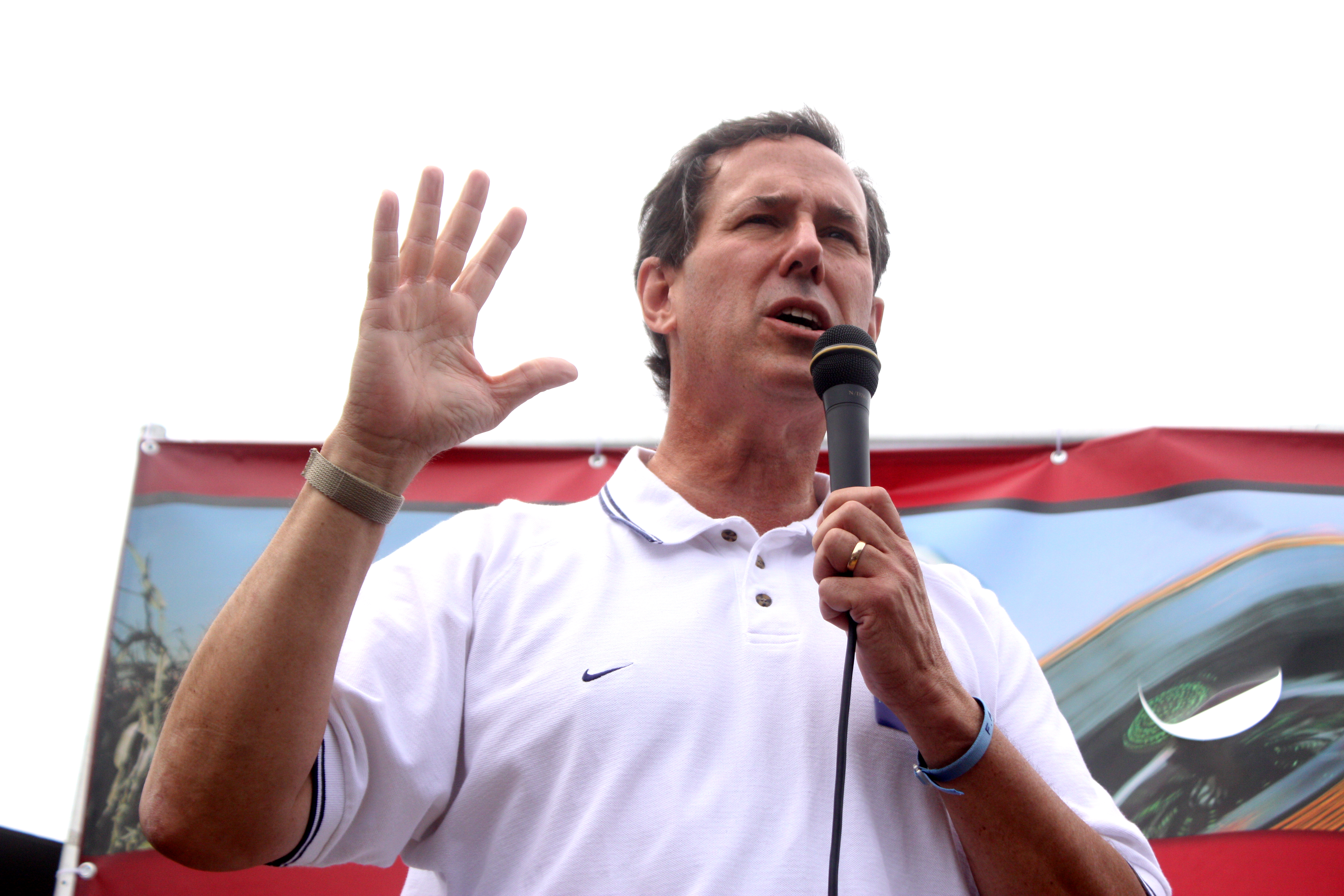 Rick Santorum at the Iowa State Fair in Des Moines, Iowa, ahead of the Ames Straw Poll.